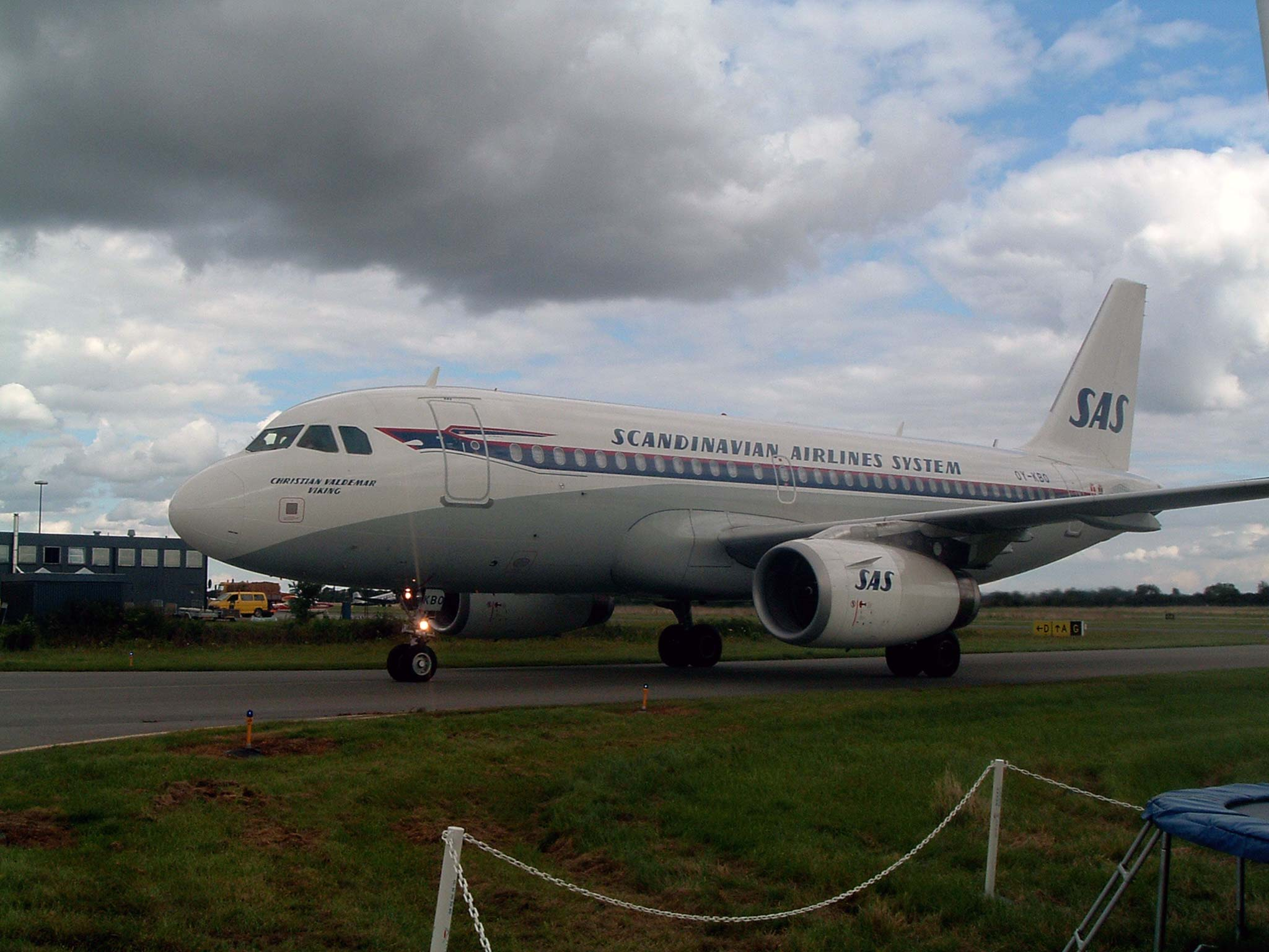 Airbus A319 Scandinavian Airlines OY-KBO